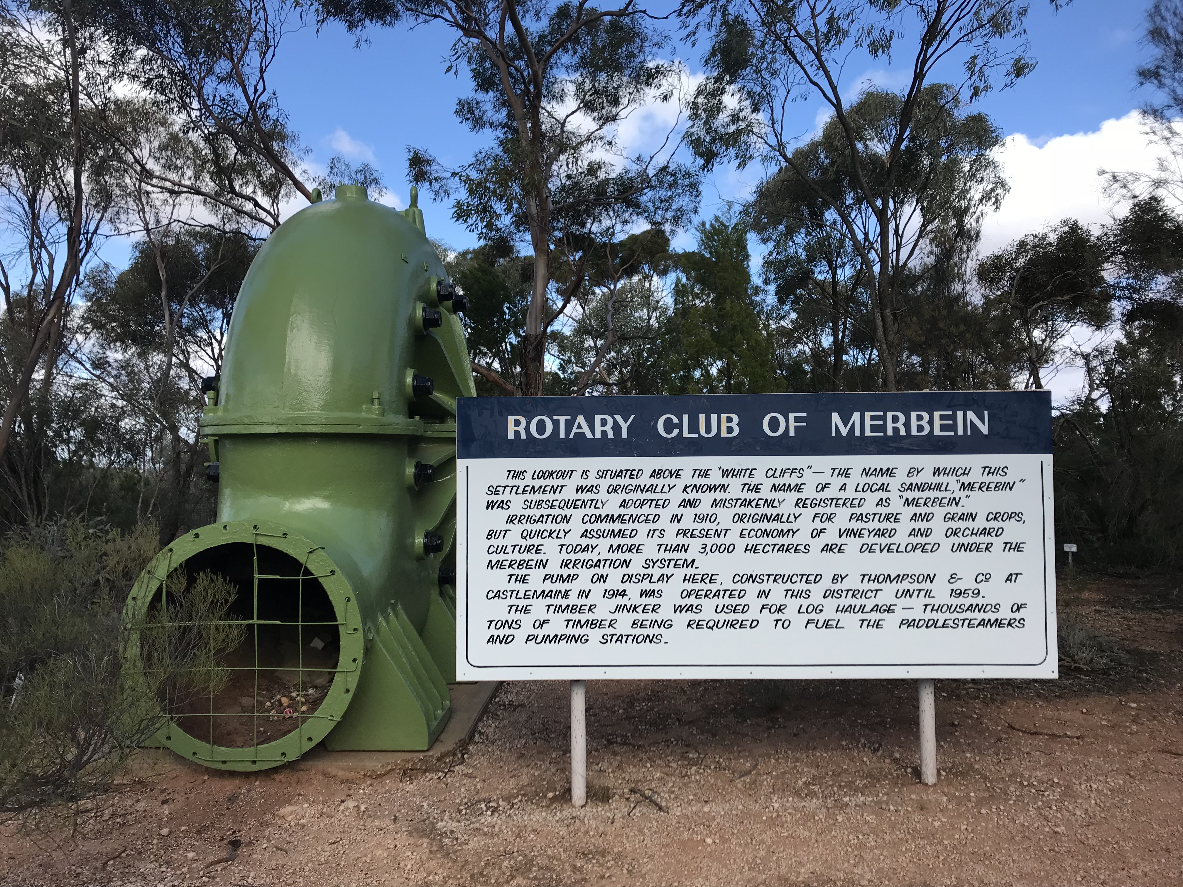 The story of how Merbein got its name. This sign was taken on the white cliffs near Mildara winery and Pump Hill in Merbein, Victoria. It should be noted that Merebin is reputedly an aboriginal name of a local sandhill